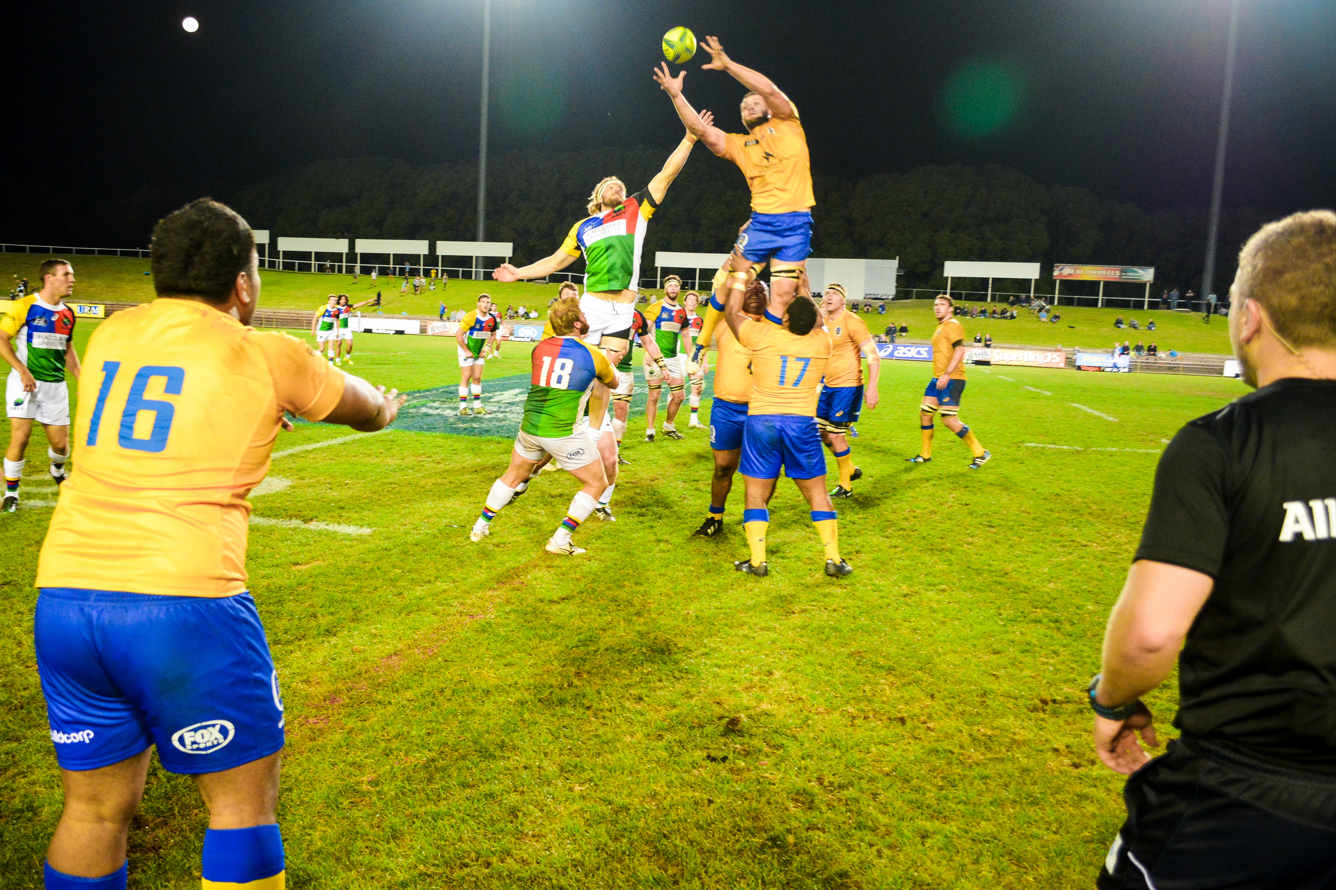 Brisbane City versus North Harbour Rays NRC Round 8